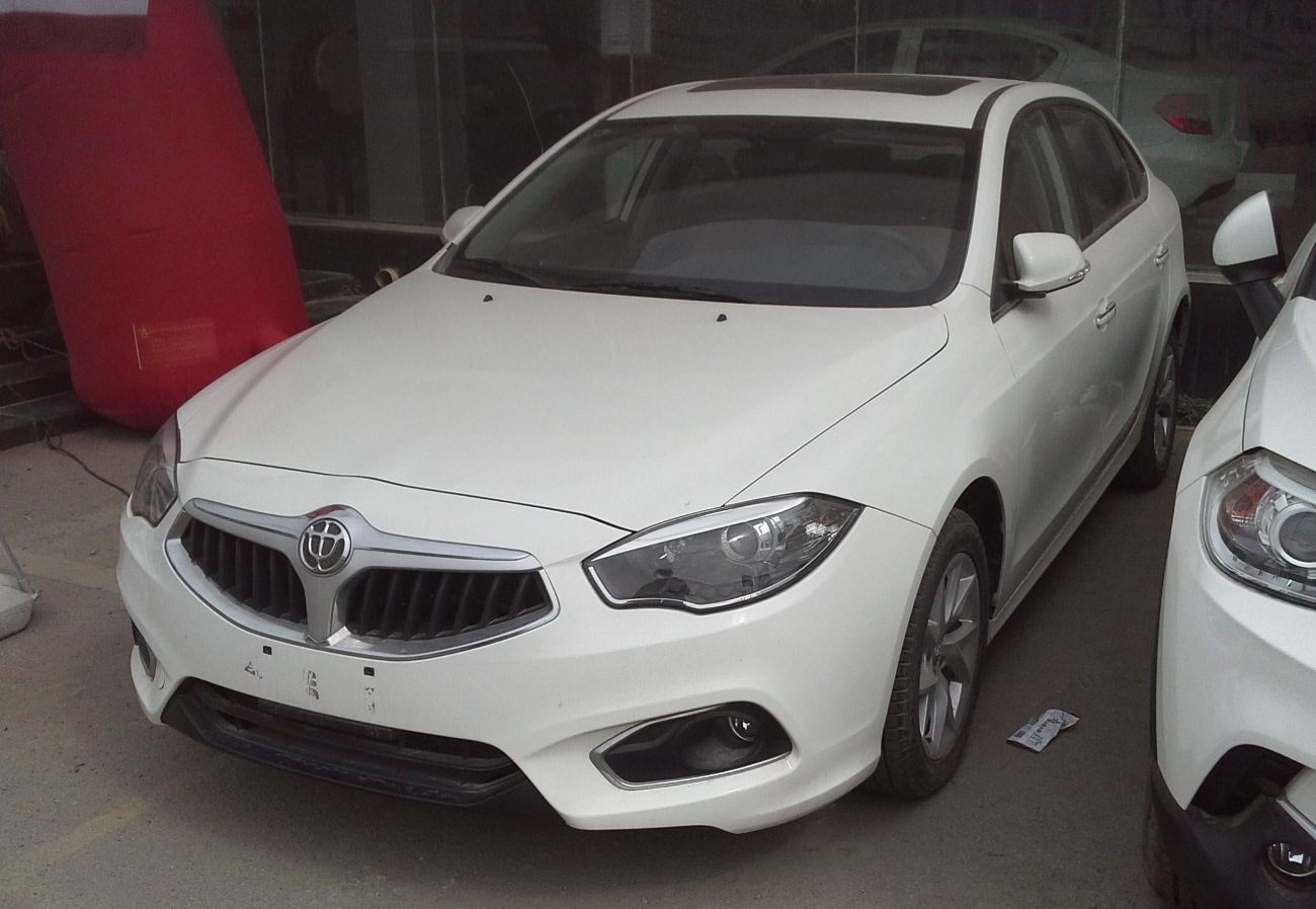 Brilliance H530 facelift photographed in Zhengzhou, Henan province, China.